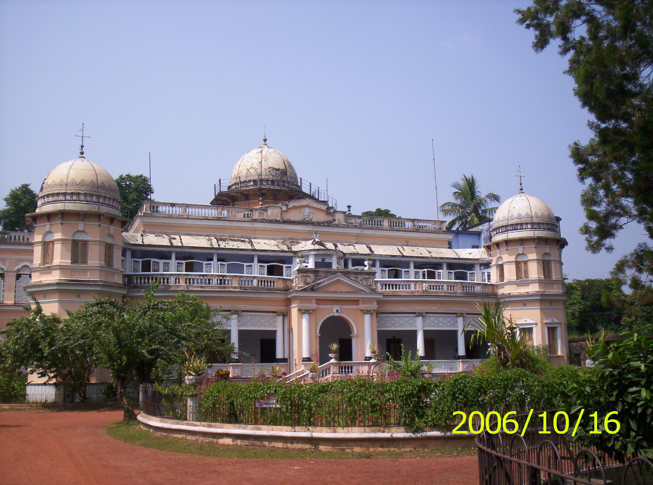 The palace in Jhargram, a town in West Midnapur district, West Bengal, India